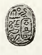 Picture of a scarab of pharaoh Khasekhemre Neferhotep I: "Son of Re, Neferhotep, born of the Royal Mother, Kema". Reign of Neferhotep I, 13th dynasty, Middle Kingdom.